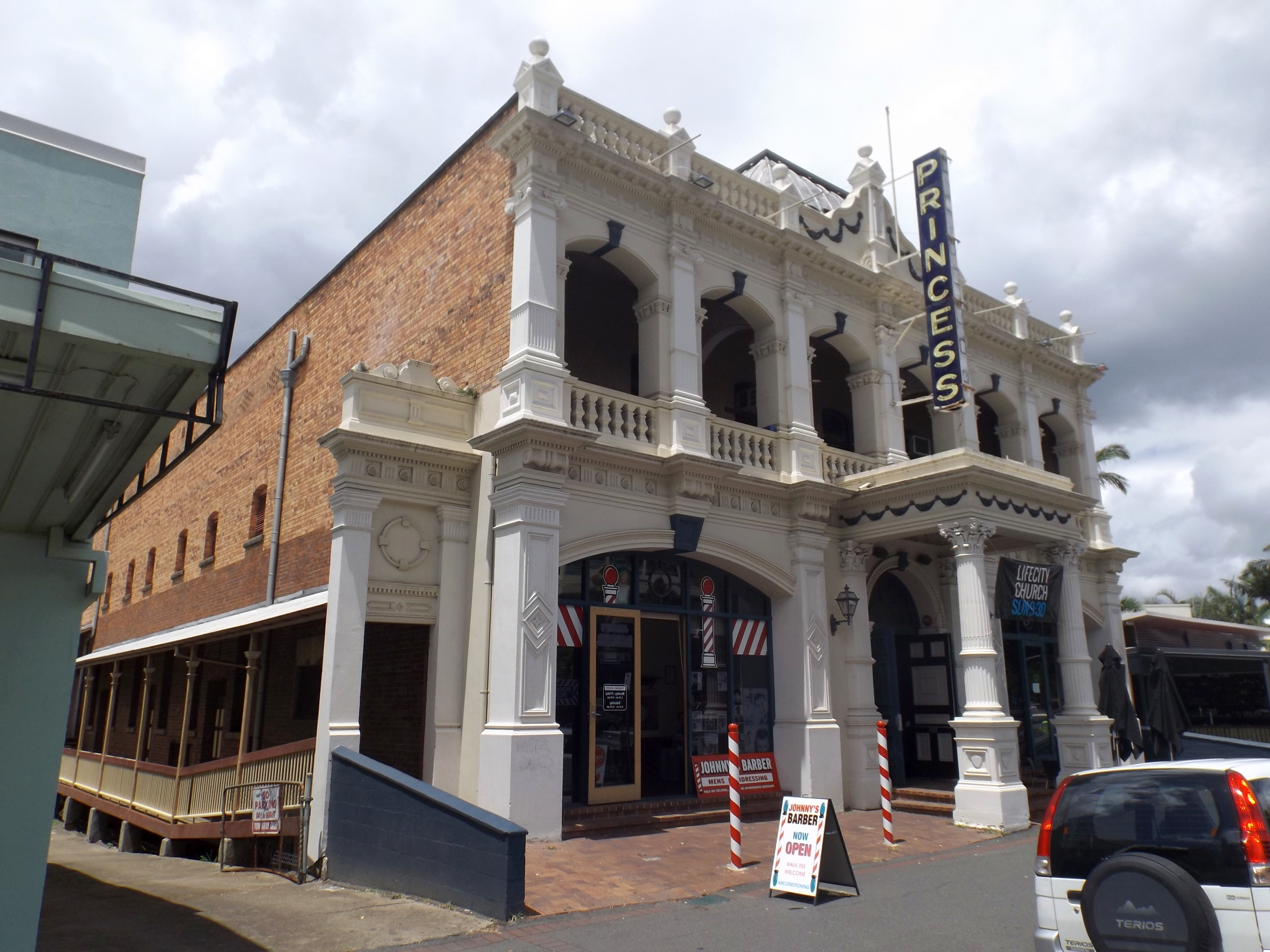 Photo of the Princess Theatre at Woolloongabba, Brisbane, Queensland, Australia.